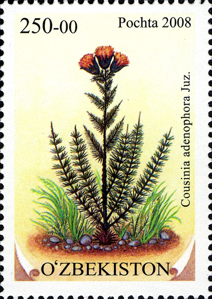 Stamps of Uzbekistan, 2008